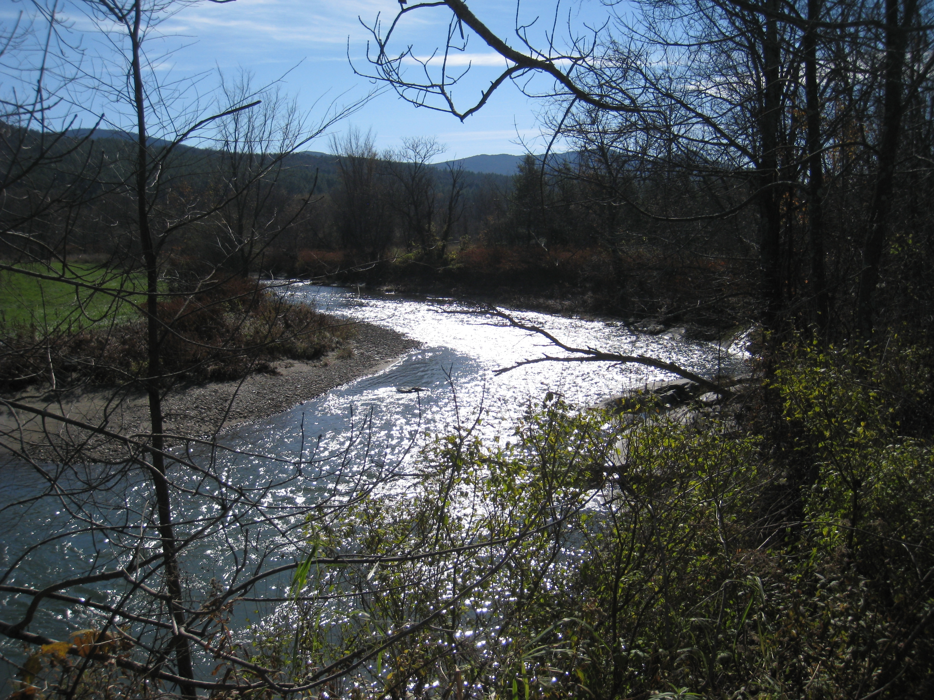 The Mad River helps make Vermont’s Mad River Valley a scenic place to live and visit. Rivers and wetlands can become flooded during storms, threatening people and buildings nearby. Communities can use our Flood Resilience Checklist to reduce their vulnerability to floods by conserving land around rivers and helping farmers and other landowners implement flood resilience strategies. Photo credit: EPA More